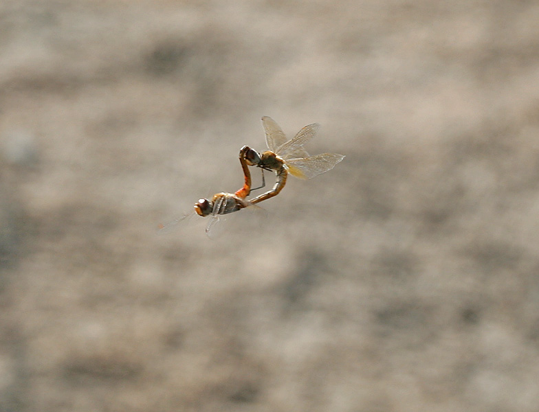 Wandering Glider or Globe Skimmer Pantala flavescens in Bhongir Fort, Andhra Pradesh, India.